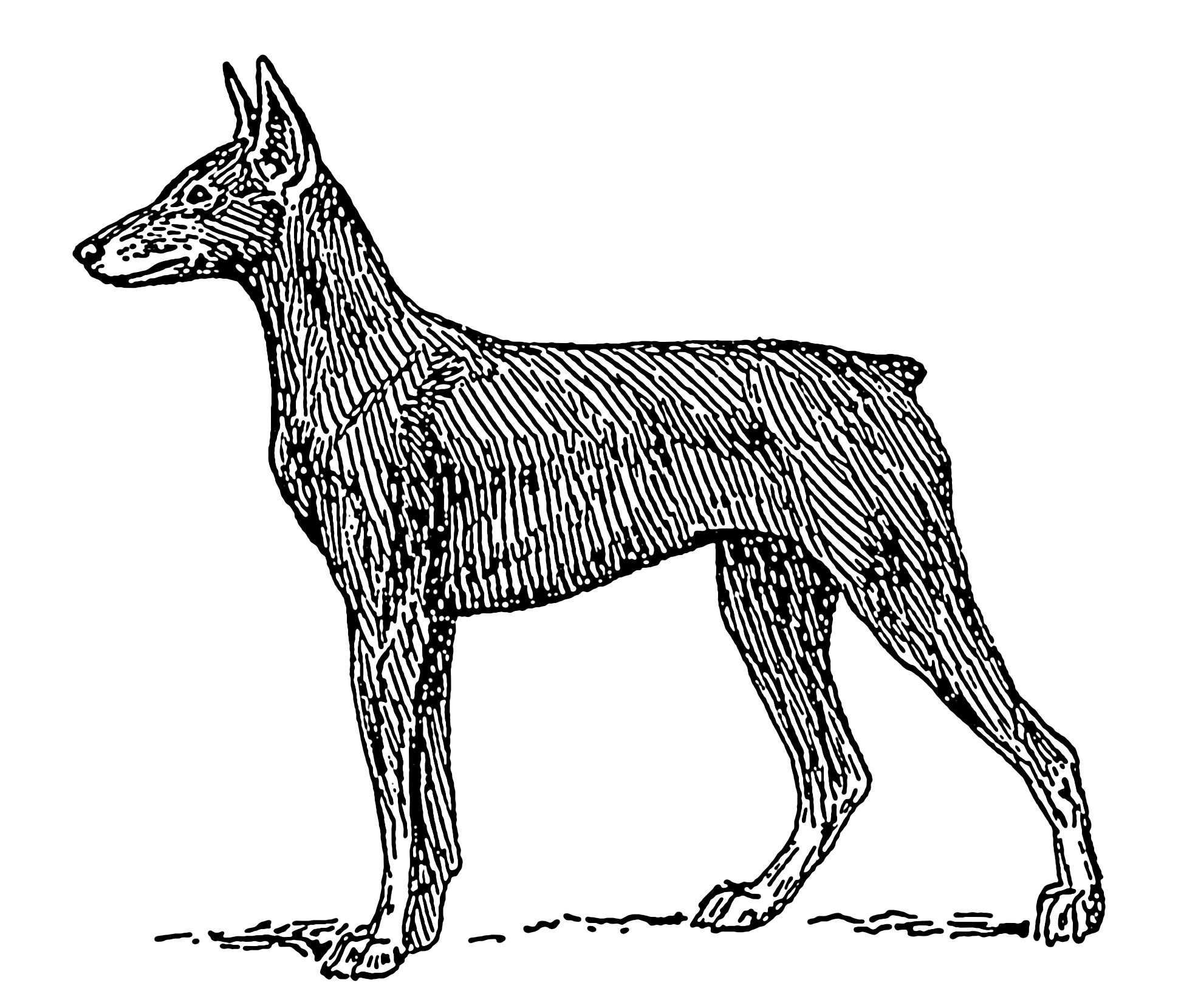 Line art drawing of a Doberman Pinscher.